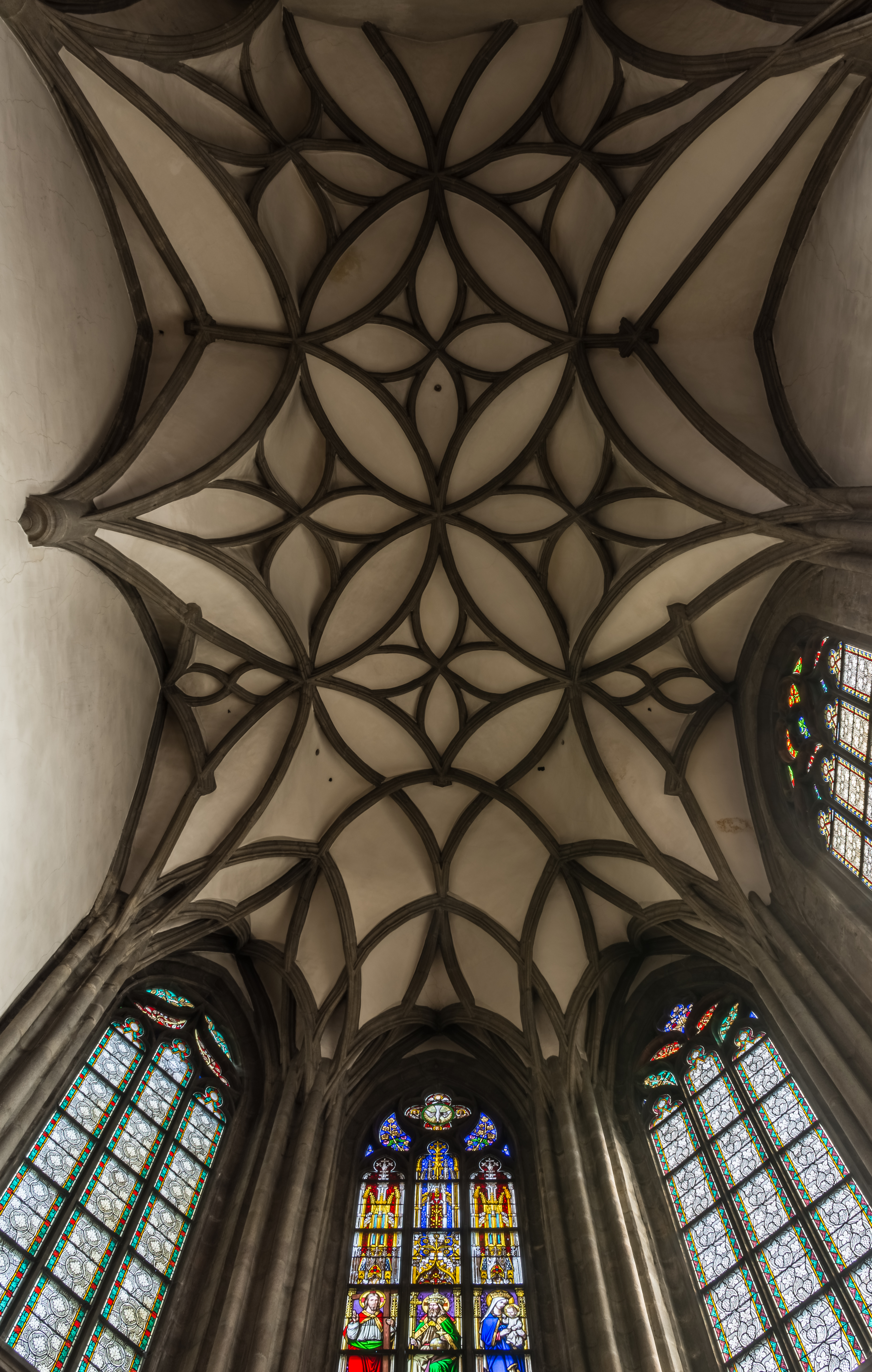 Rib vault in the choir of the parish church Freistadt, Upper Austria